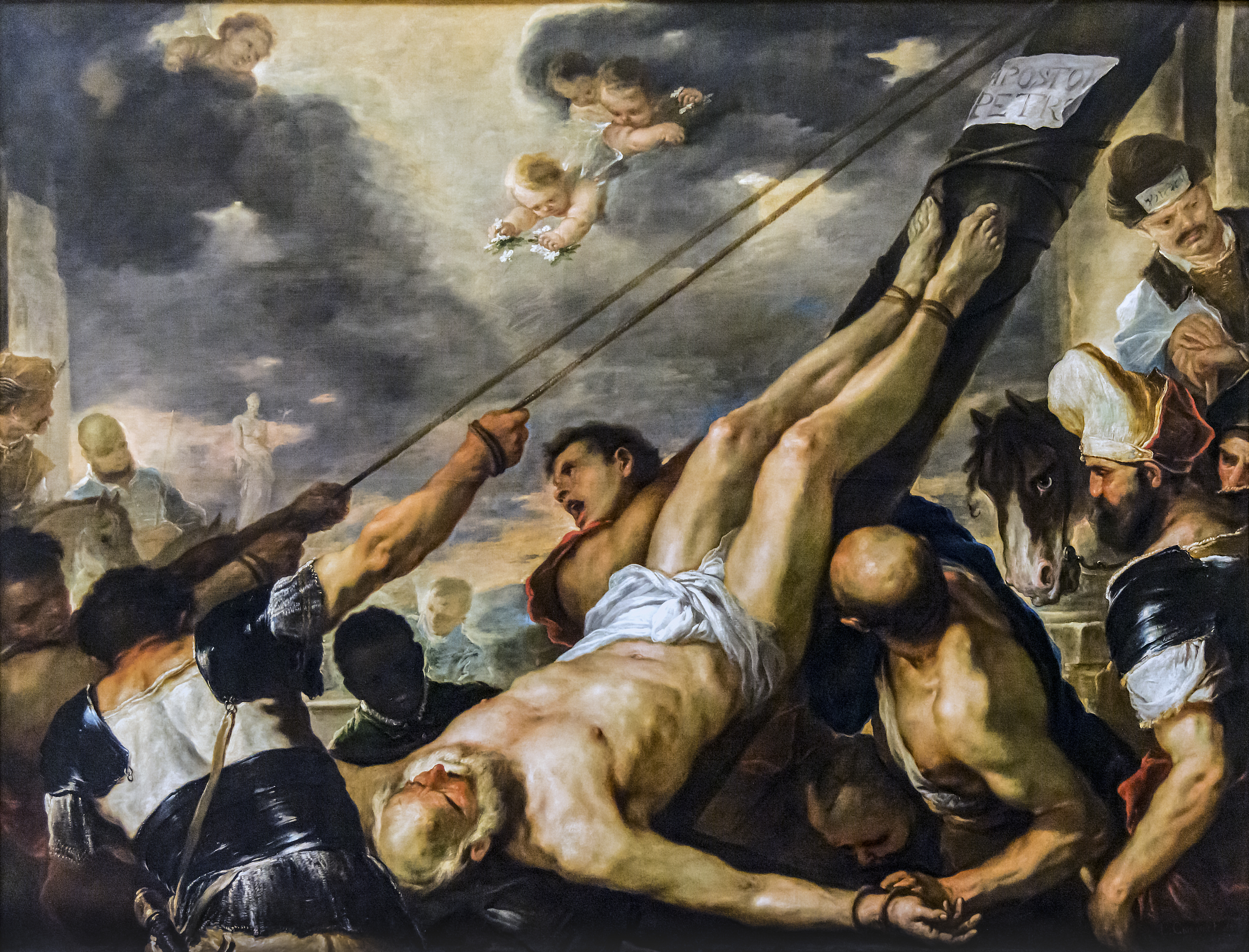 Madonna and Child on Throne and Saints Sebastian, Marco and Theodore, venerated by three Camerlengo with the secretaries